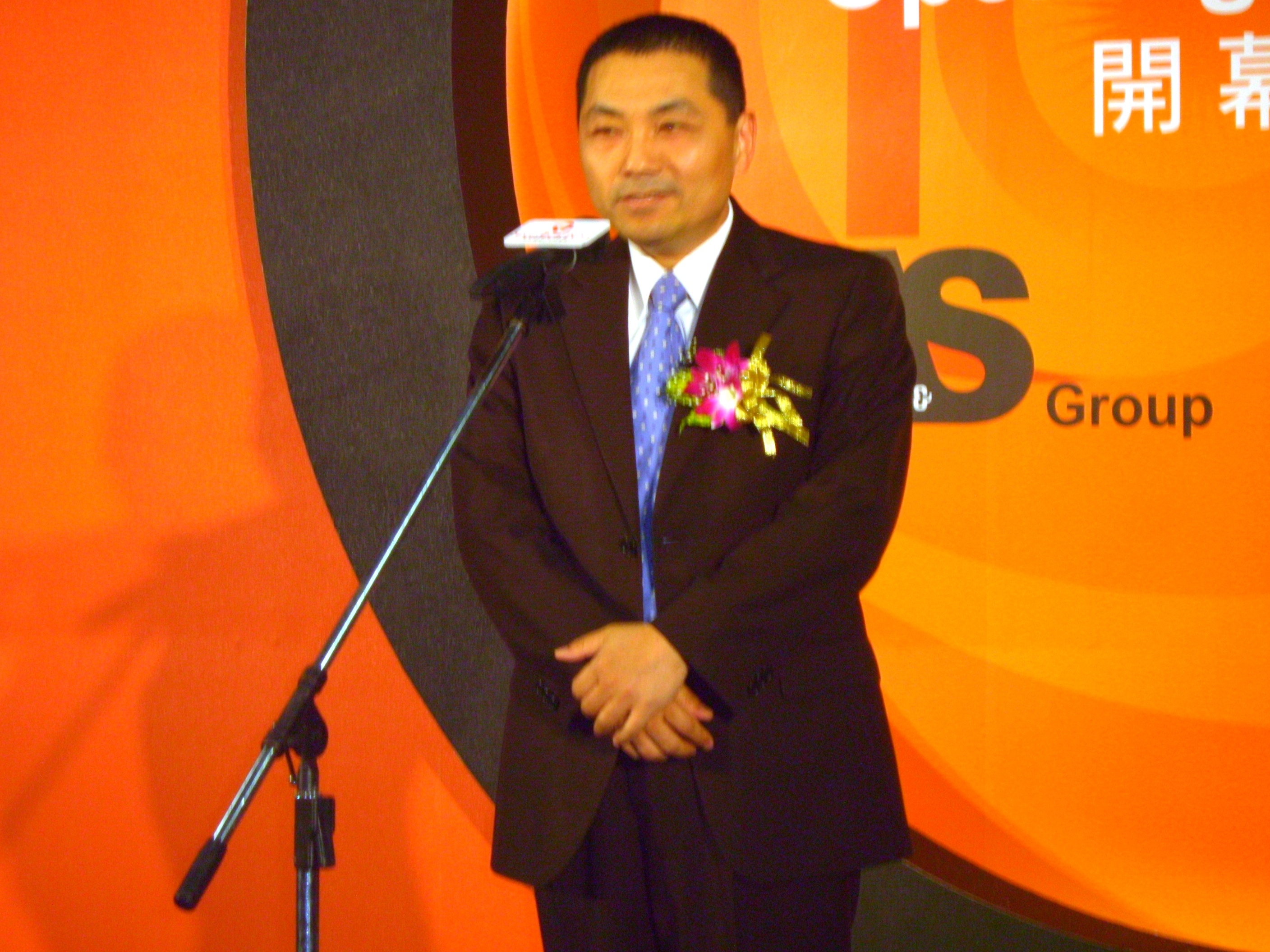 Commissioner of Criminal Investigation Bureau, Taiwan, Republic of China, Hou Yu-ih.